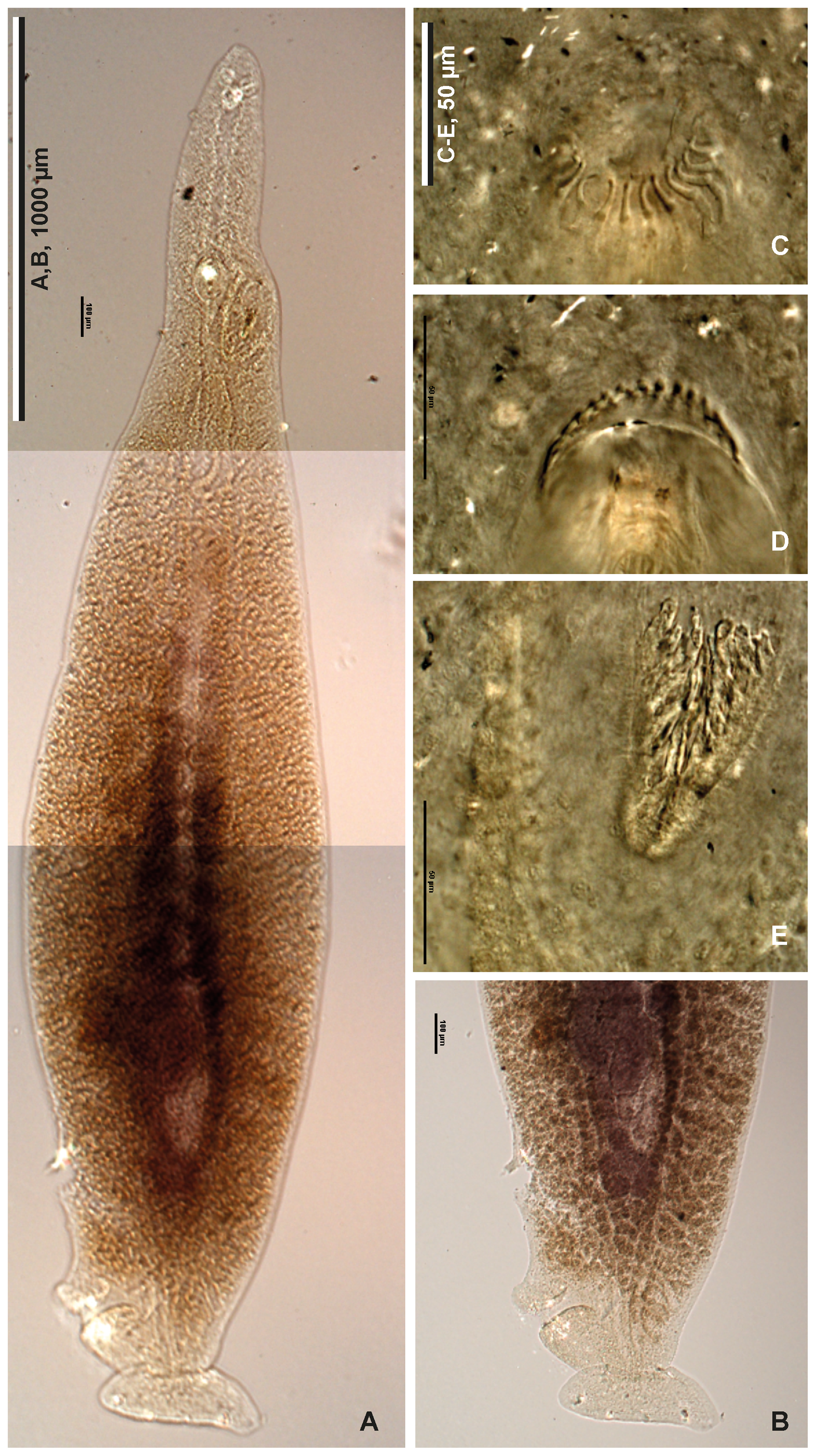 Lethacotyle fijiensis Manter & Prince, 1953 (Monogenea, Protomicrocotylidae), holotype Legend in published paper: Figure 2. Photograph of the holotype of Lethacotyle fijiensis Manter & Prince, 1953. Lethacotyle fijiensis Manter & Prince, 1953 urn:lsid: :act:DA367684-AAC2-​44D0-A8E8-64894AFA647A. Holotype, slide USNPC 48718. A, body. B, posterior part of body, different focus. C, D, spines of male copulatory organ, two different focuses. E, sclerotised vagina. Original photographs taken by Patricia Pilitt, USNPC.